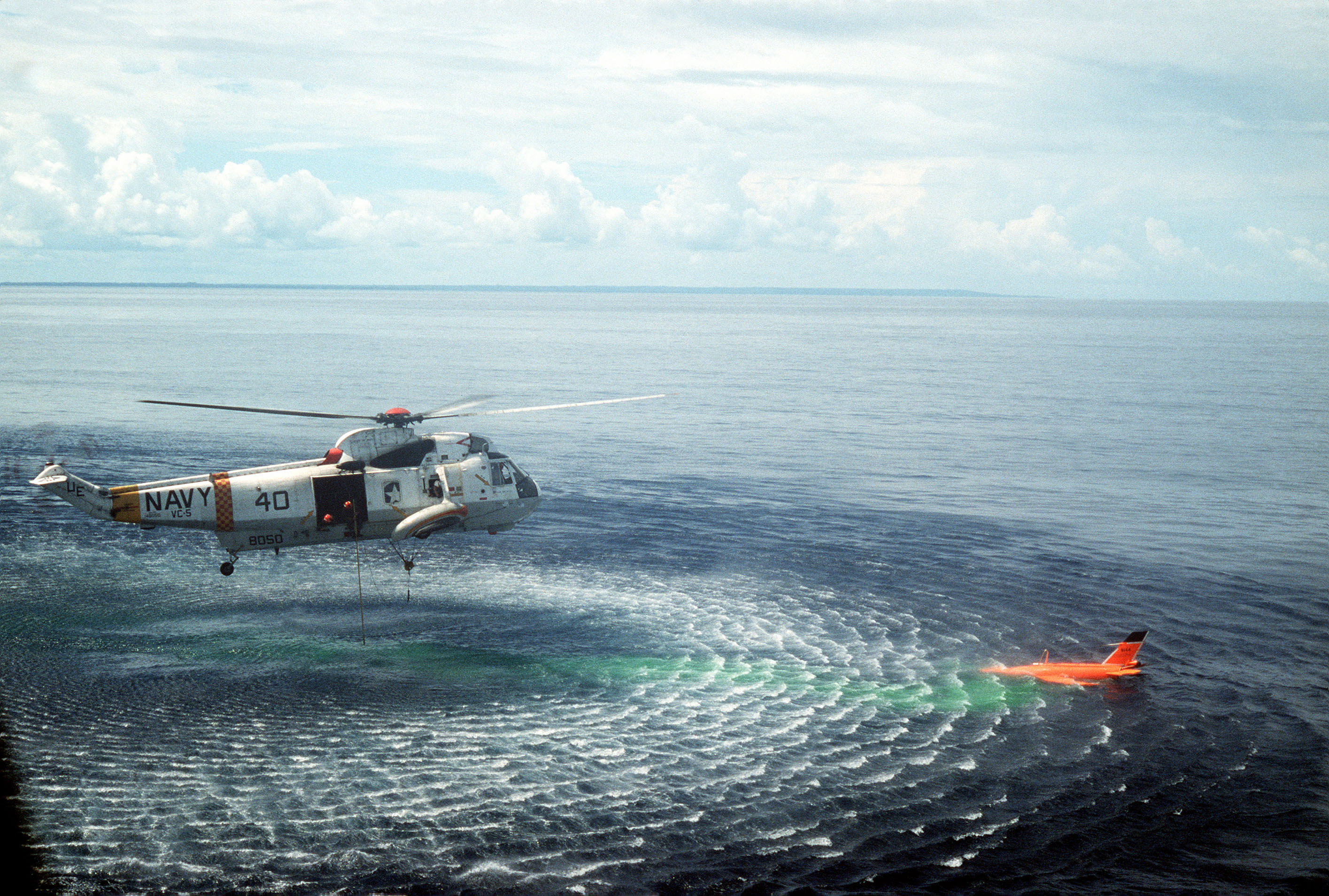 Air-to-air right side view of a Navy SH-3G Sea King helicopter from Fleet Composite Squadron Five (VC-5) approaching a BQM-34-S Firebee drone in the water. Note green marker dye emitted by the drone. ID: DN-ST-86-01442